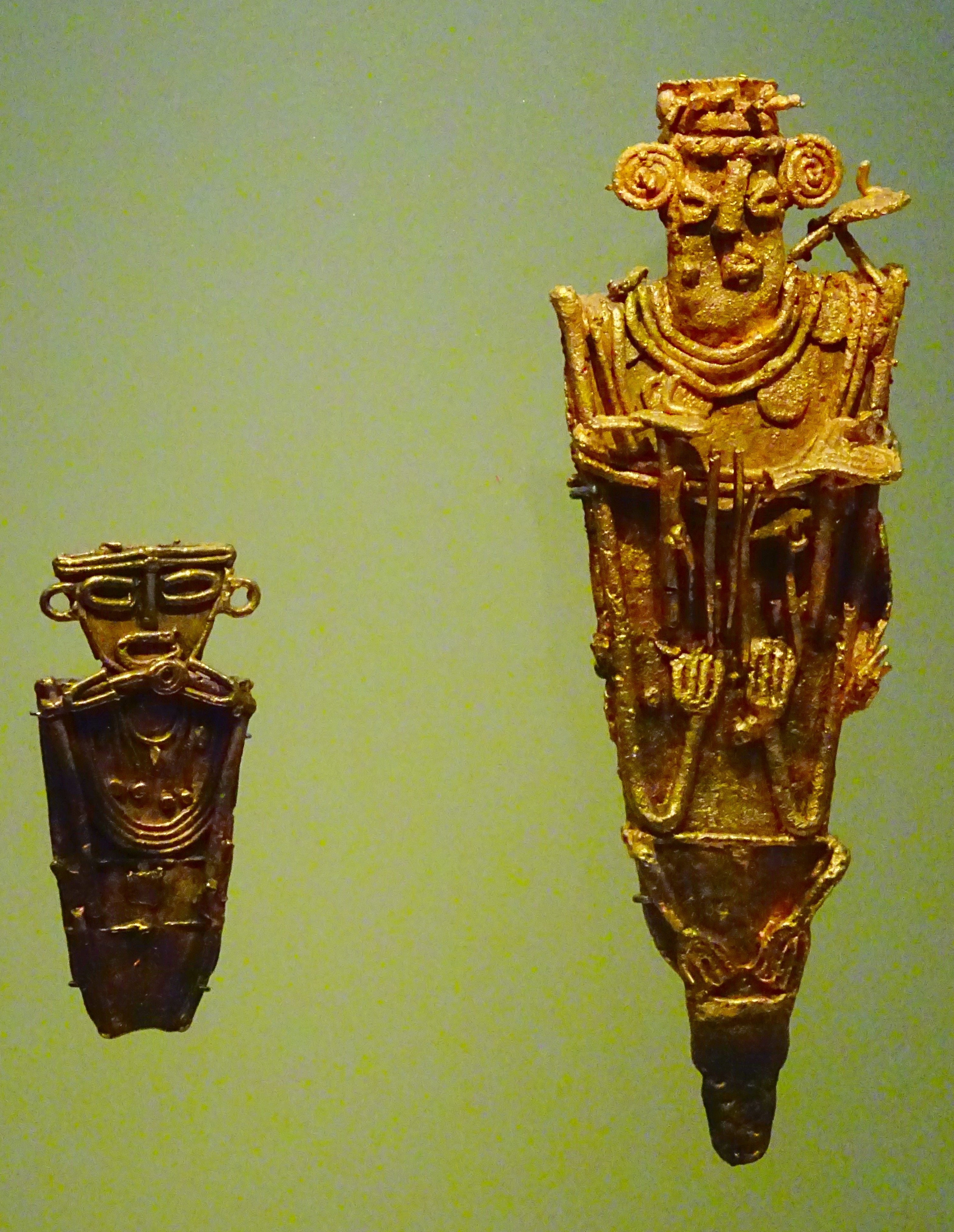 Tunjos in the Museo del Oro/Gold Museum, Bogotá